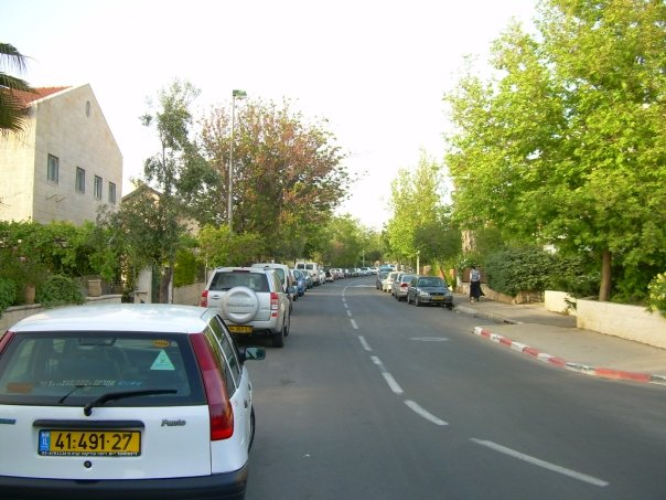 A street in Efrat